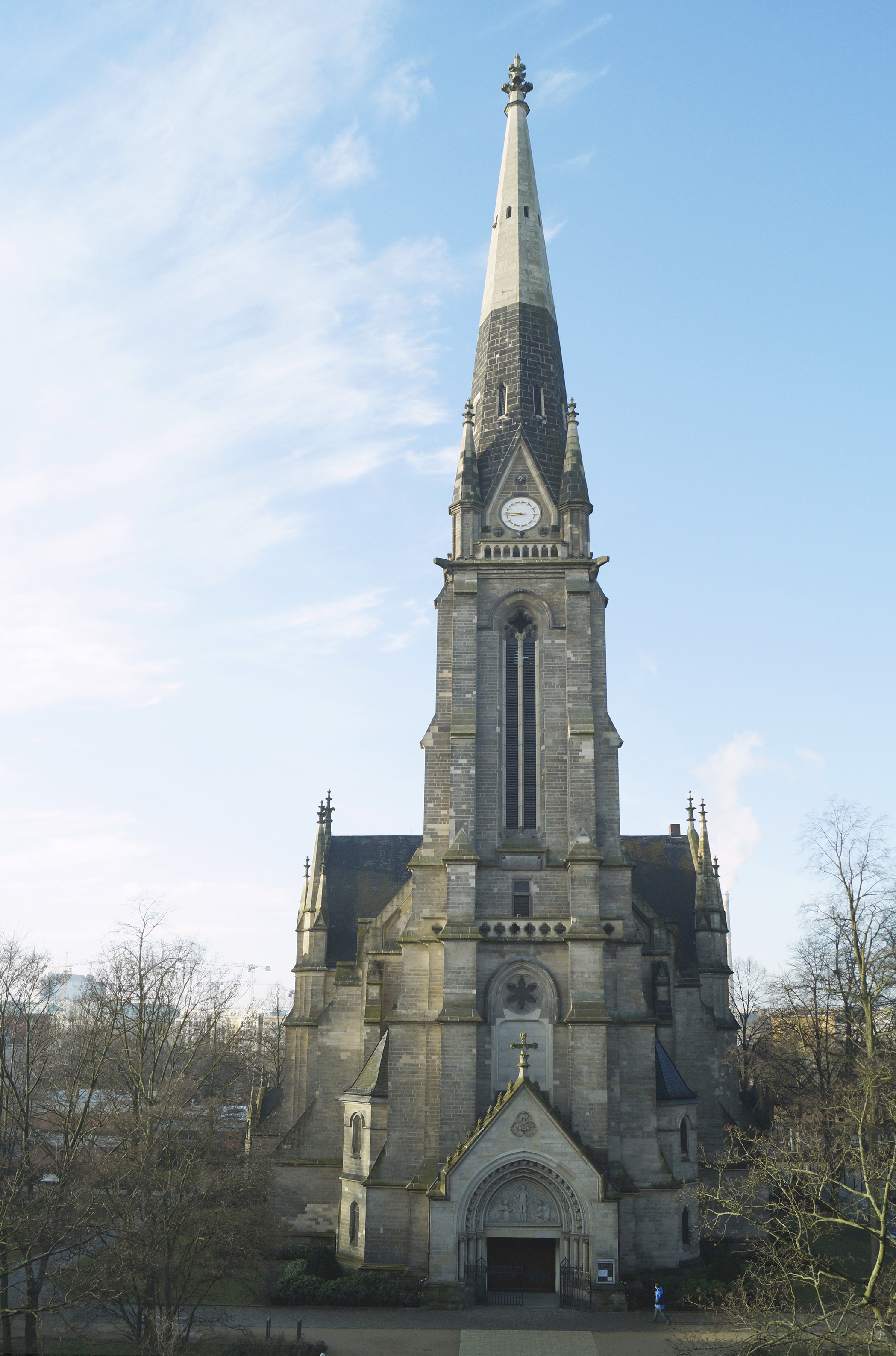 Catholic Church St. Sebastian in Berlin, Germany.